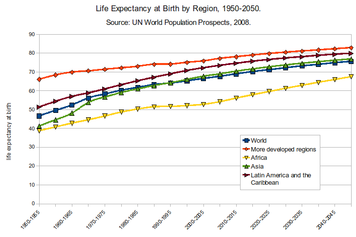 This is a chart depicting trends in life expectancy at birth by various regions of the world from 1950–2050. The data come from the UN World Population Prospects 2008.